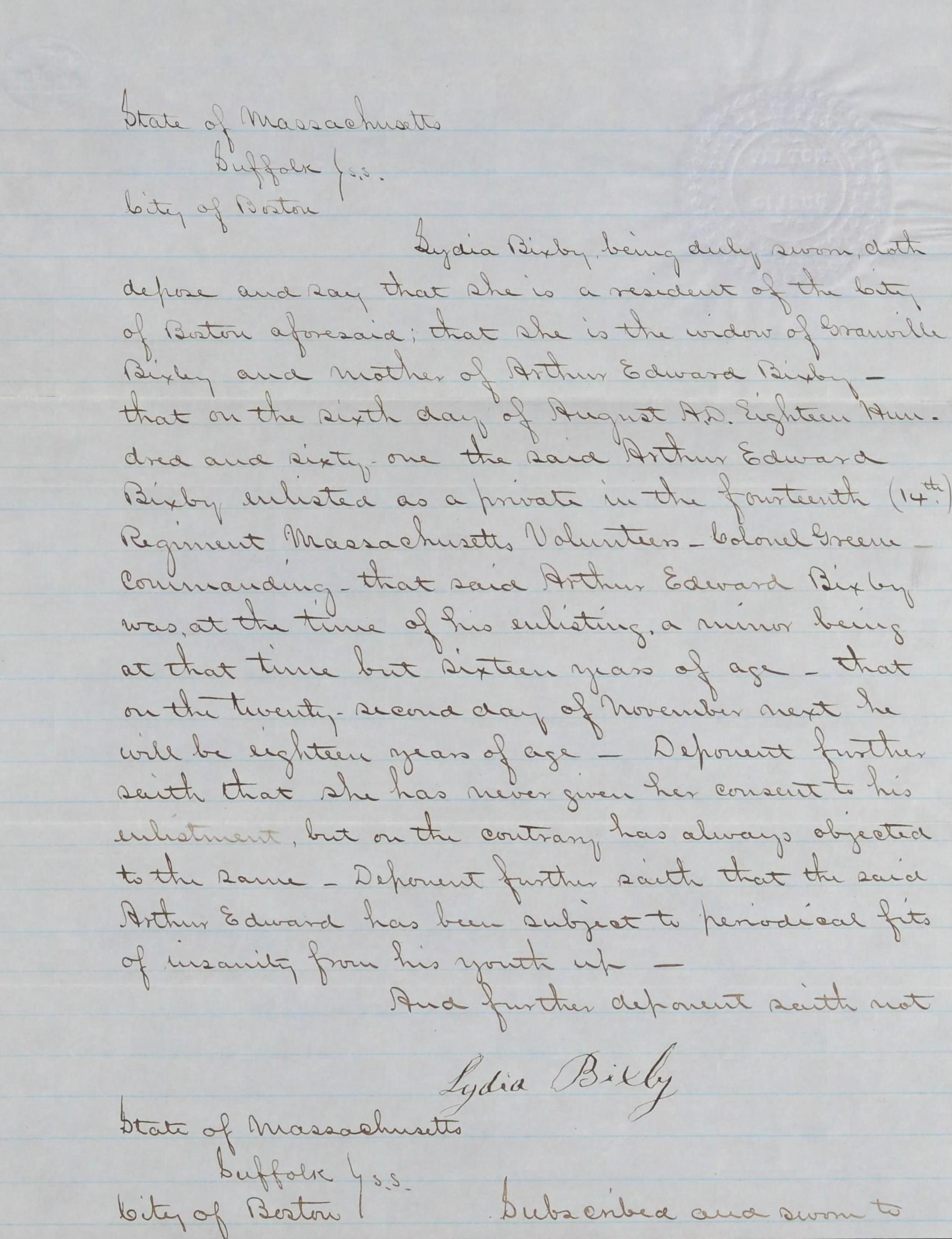 Cropped first page of affidavit of Lydia Bixby (with signature), attempting to have her son, Arthur Edward Bixby discharged from the U.S. Army during the American Civil War. President Lincoln would later write her a letter of condolence in 1864.